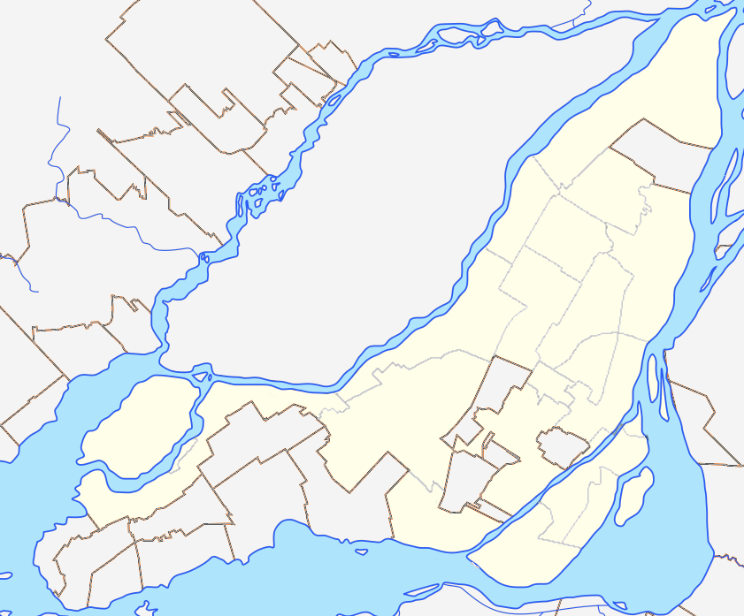 Blank map of Montreal and Laval Islands to be used for Template:Location map Canada Montreal. Colours are matched to File:Canada Quebec location map 2.svg for consistency.